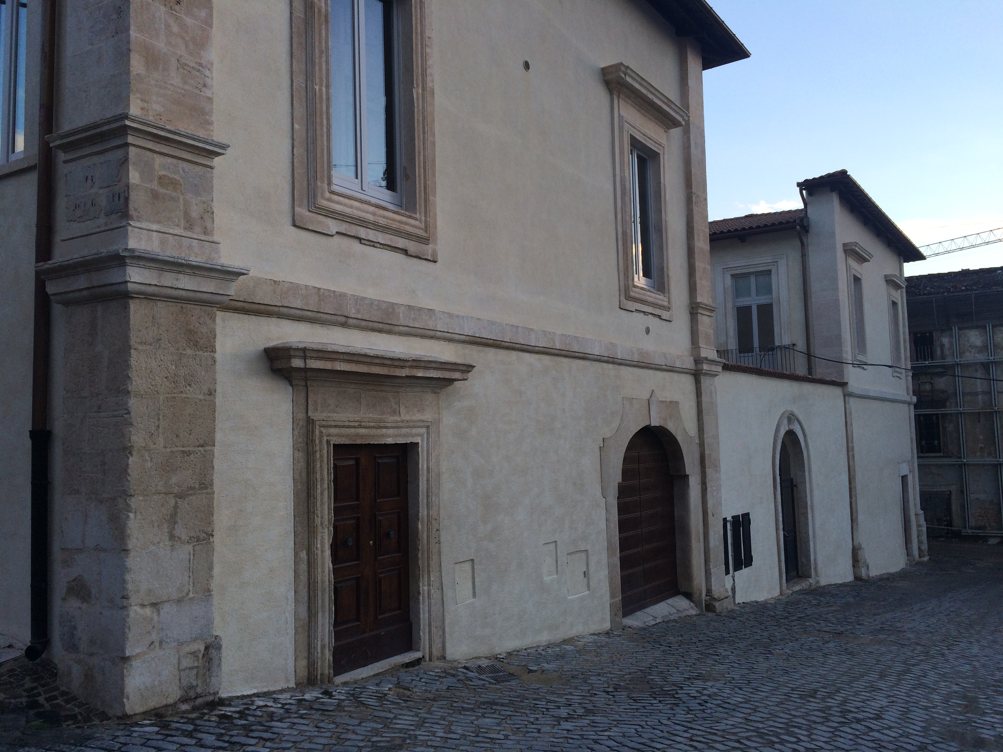 Palazzo Porcinari in L'Aquila